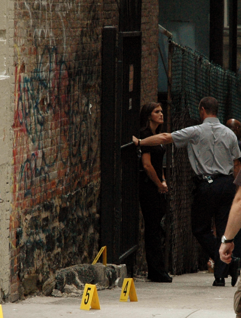 Mariska Hargitay and Christopher Meloni filming on season 12 of Law & Order: Special Victims Unit on West 111th Street in New York.